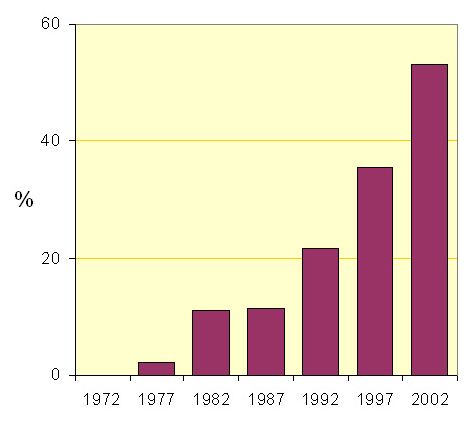 2008-05-30T19:36:59Z Alvin-cs (Talk